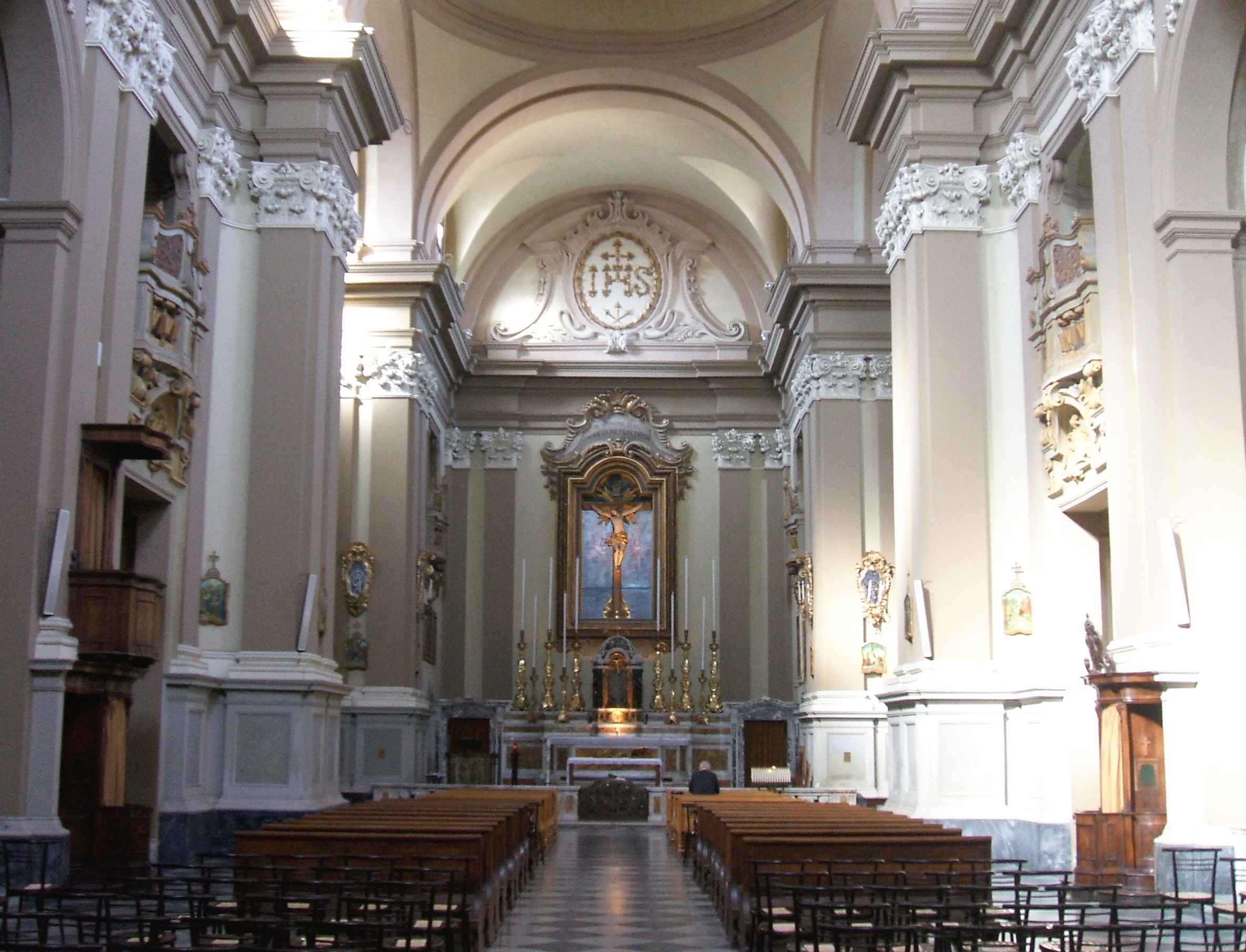 Church of Suffragio in Rimini, Italy